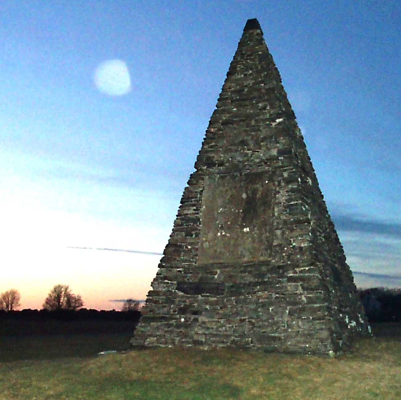 The Pyramid at Austråttborgen (en: The Manor of Austrått), built 1656, in Ørland, Norway